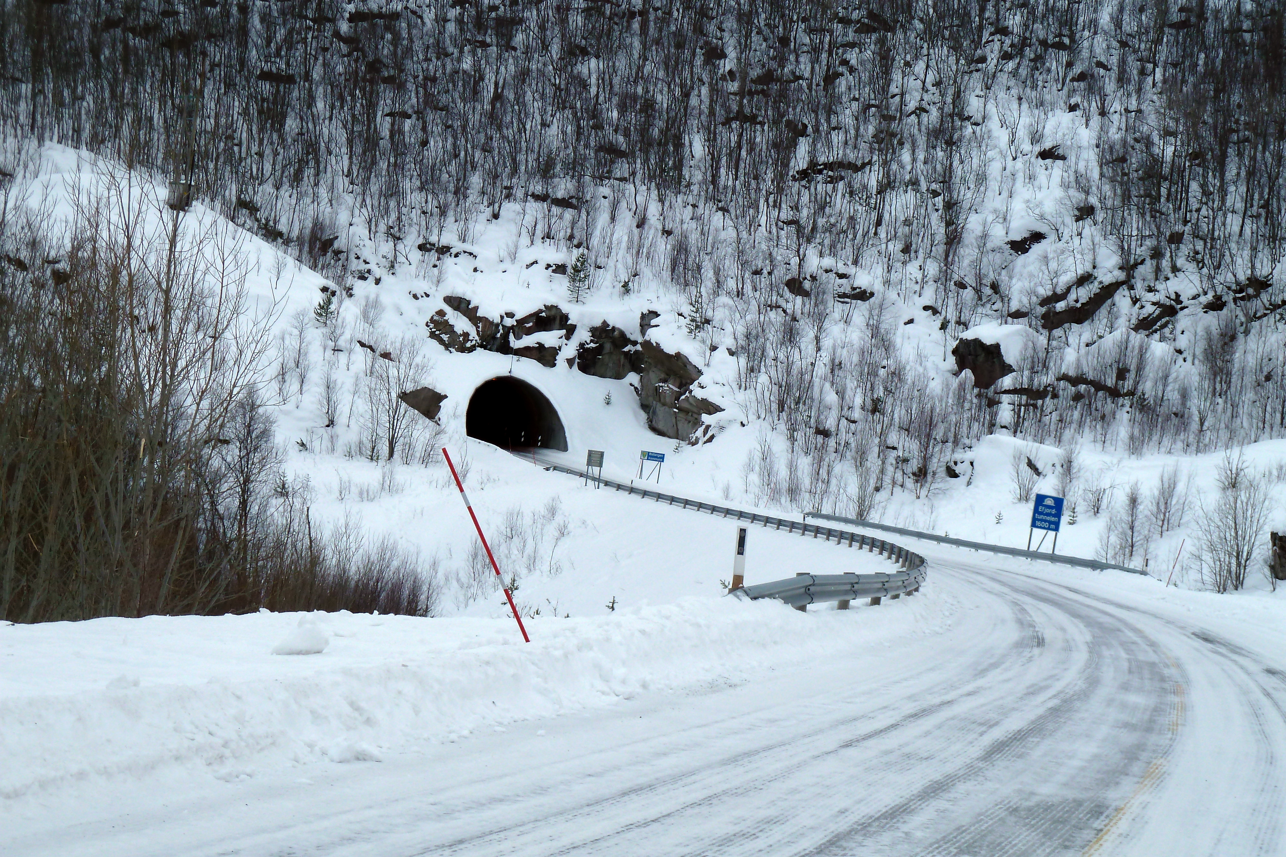 The Efjord Tunnel at County Road 827 in Nordland, Norway. Southern end.